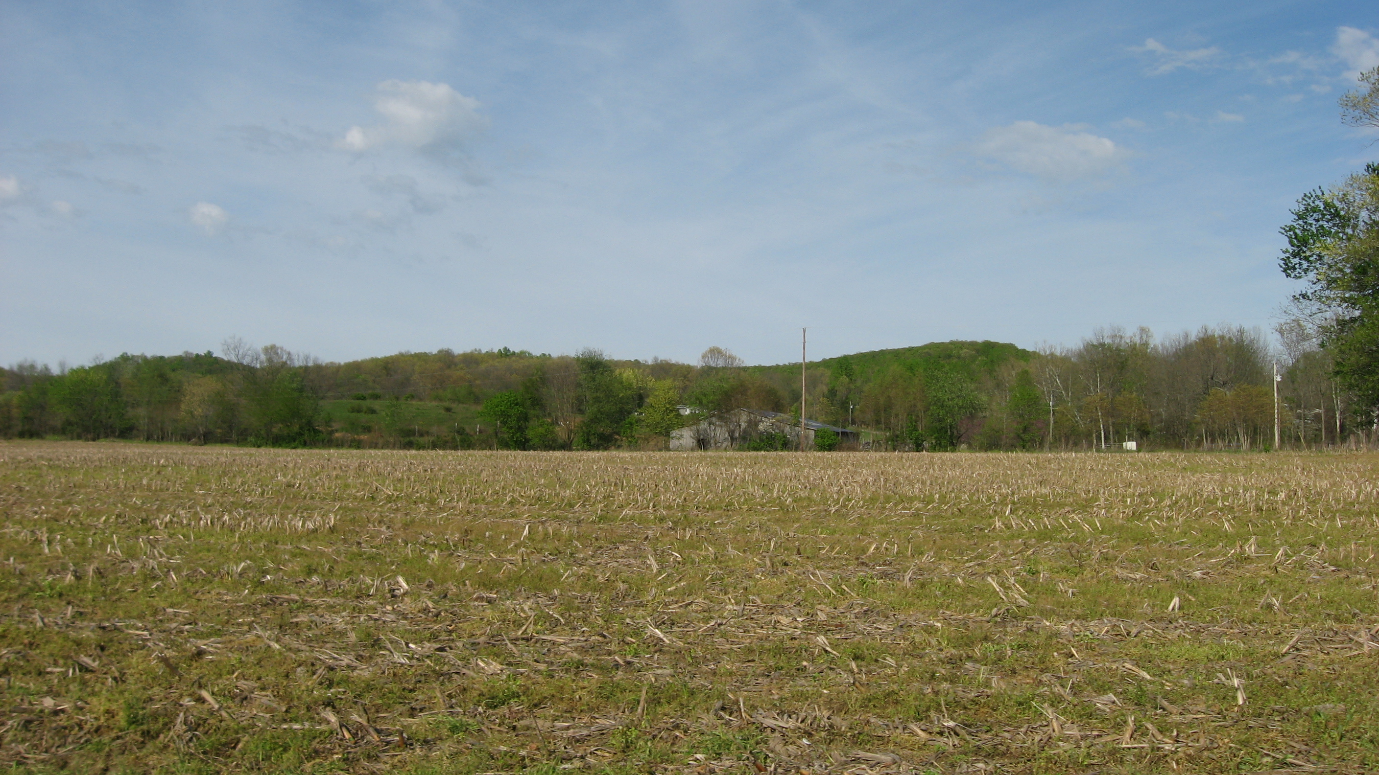 Countryside in Salt Creek Township, Jackson County, Indiana, United States. Photo is taken looking northeastward from Pike Road (950W) just north of its intersection with 750N.